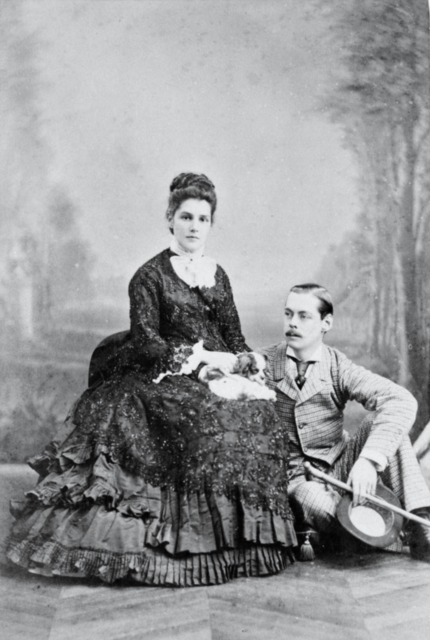 Lord Randolph Churchill (1849-1895) married on April 15, 1874 at the British Embassy in Paris with Miss Jennie Jerome (1854-1921). Photographer Georges Penabert also made two photographs for the same period, of Lady Hélène Standish, present at the wedding ceremony with her husband Henry Noailles Widdringtion Standish, Lord of the Manor of Standish. The Standish couple frequent Lord Randolph Churchill and they are quoted in Jennie Jerome's correspondence. See the website : Churchill .